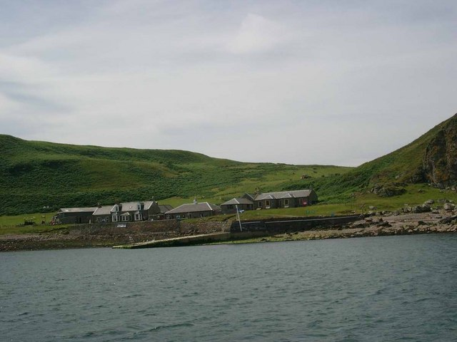 "The remotest pub in Scotland" The Byron Darnton pub, named after a shipwreck, on the isle of Sanda. While we were there by sailing boat, a helicopter called. The pub is now a popular tourist expedition, by RIB, from Campbelltown.